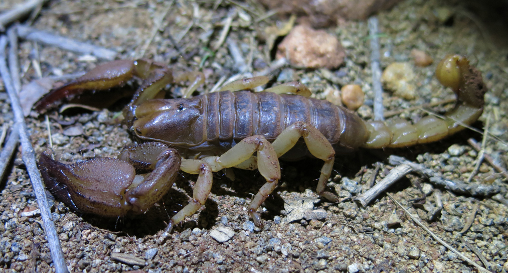 Opistophthalmus glabrifrons, Limpopo, South Africa